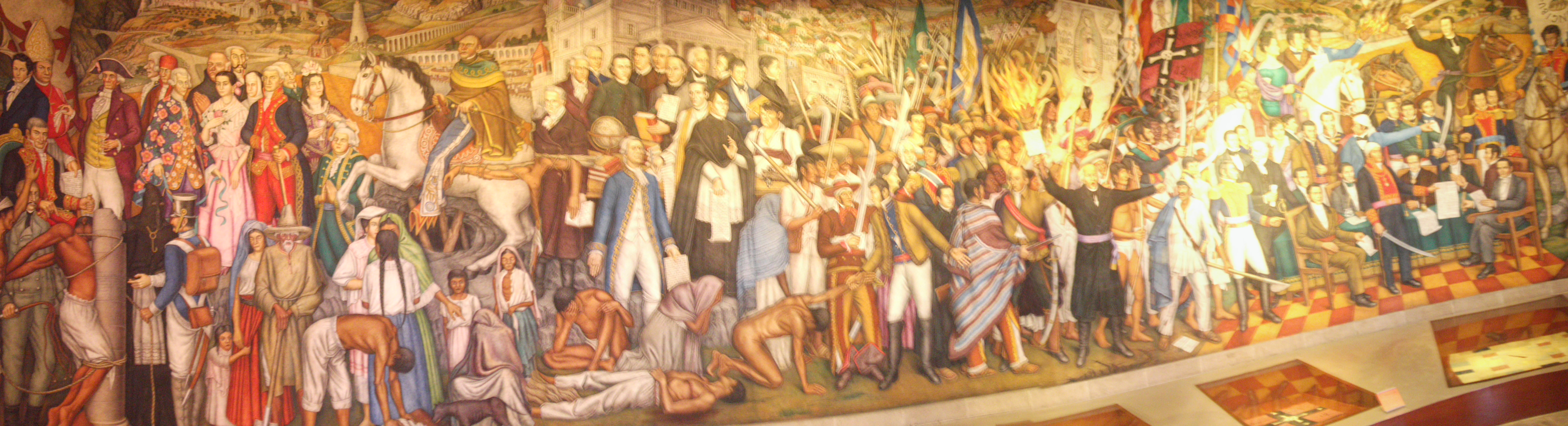 Wall painting Retablo de la independencia in Chapultepec Castle